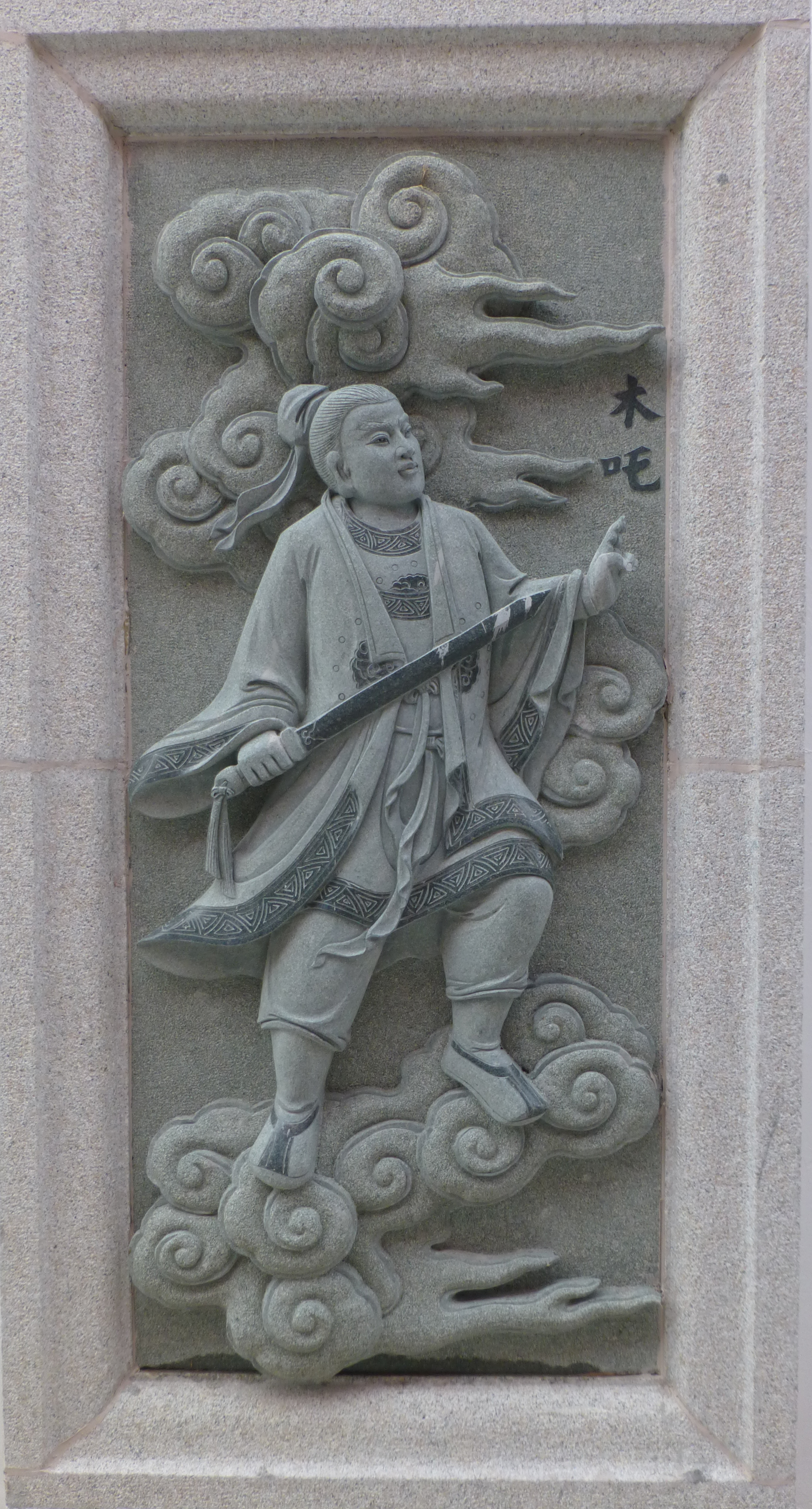 007 Muzha (deity), Investiture of the Gods at Ping Sien Si, Pasir Panjang, Perak, Malaysia Photograph from the Ping Sien Si Temple in Perak, Malaysia taken by Anandajoti.